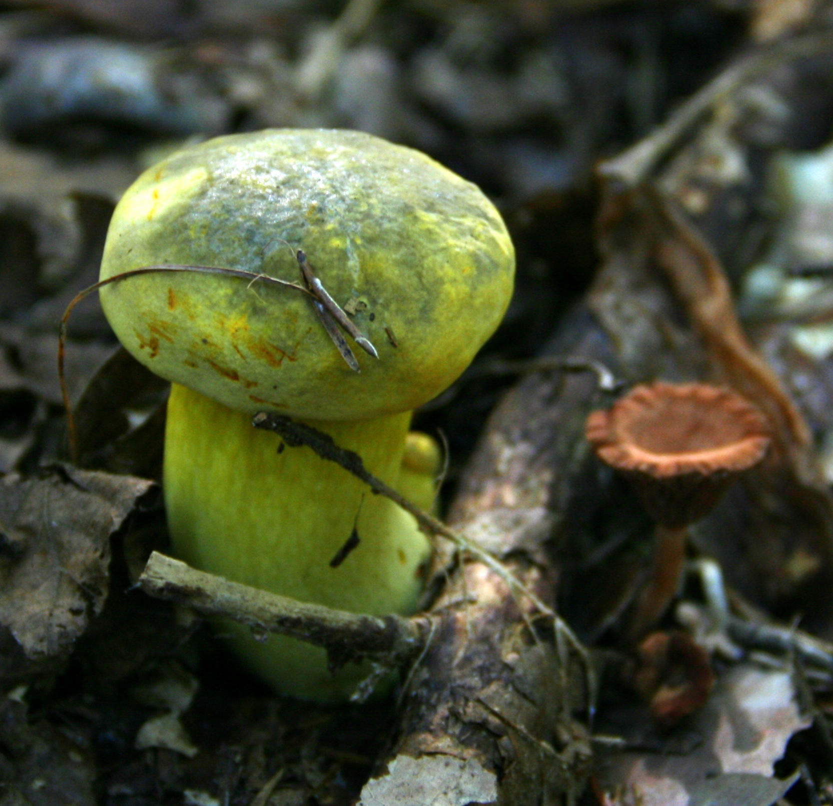 A young fruit body of the bolete mushroom Boletus pseudosulphureus Kallenb. Photographed in Culpeper Co., Virginia, USA.